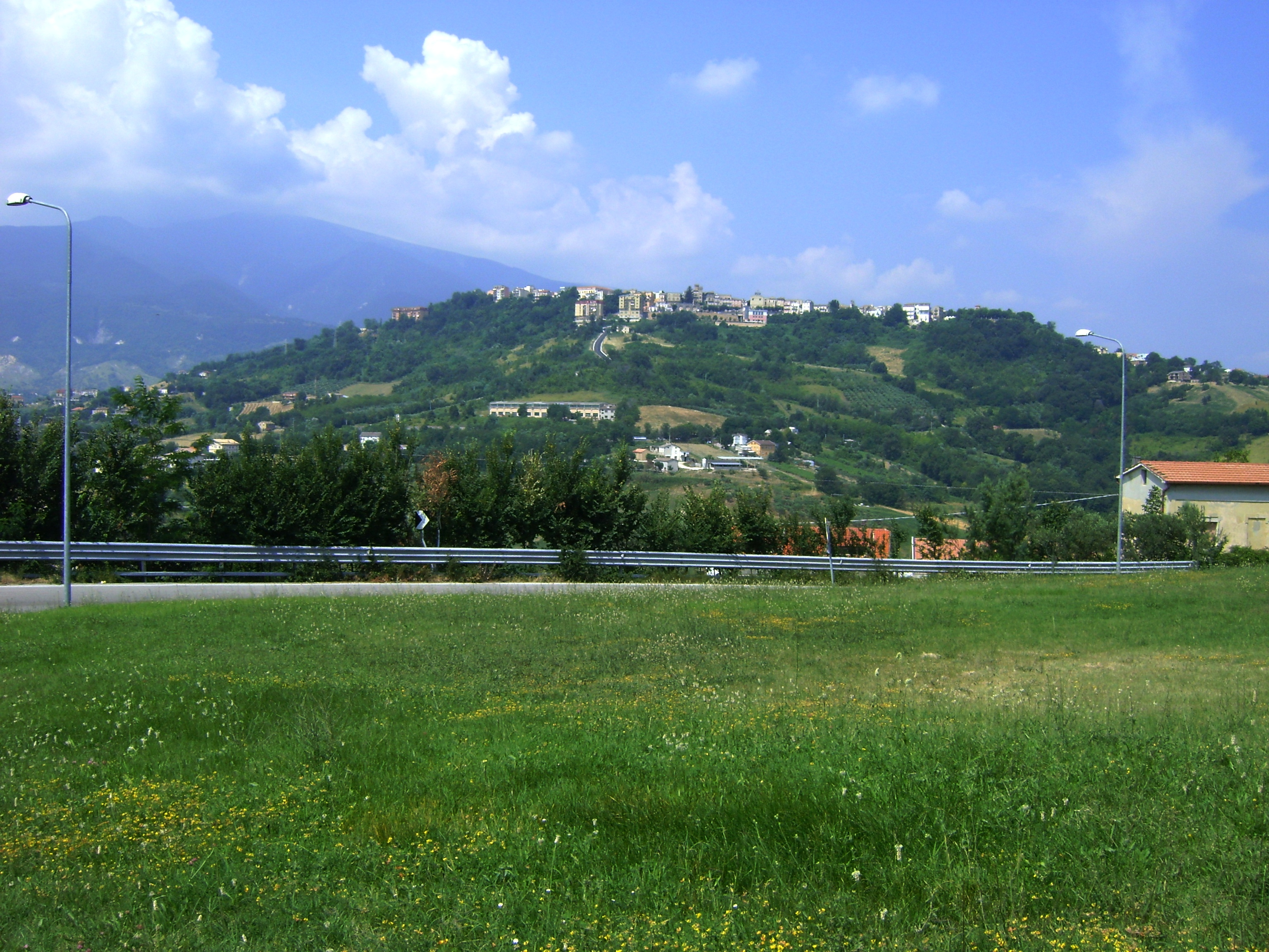 View of Guardiagrele, in the province of Chieti, Abruzzo